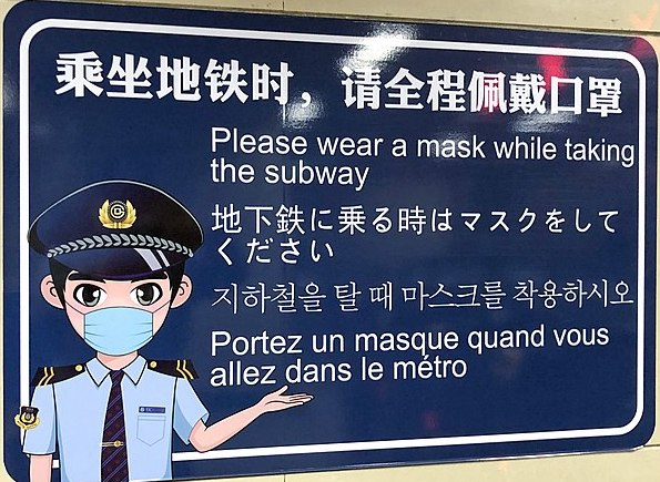 Yes, a pentalingual sign in Chinese, English, Japanese, Korean and French.